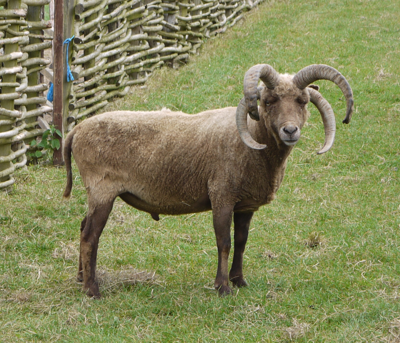 Photo of a four horned Manx Loaghtan sheep taken at Butser Ancient Farm